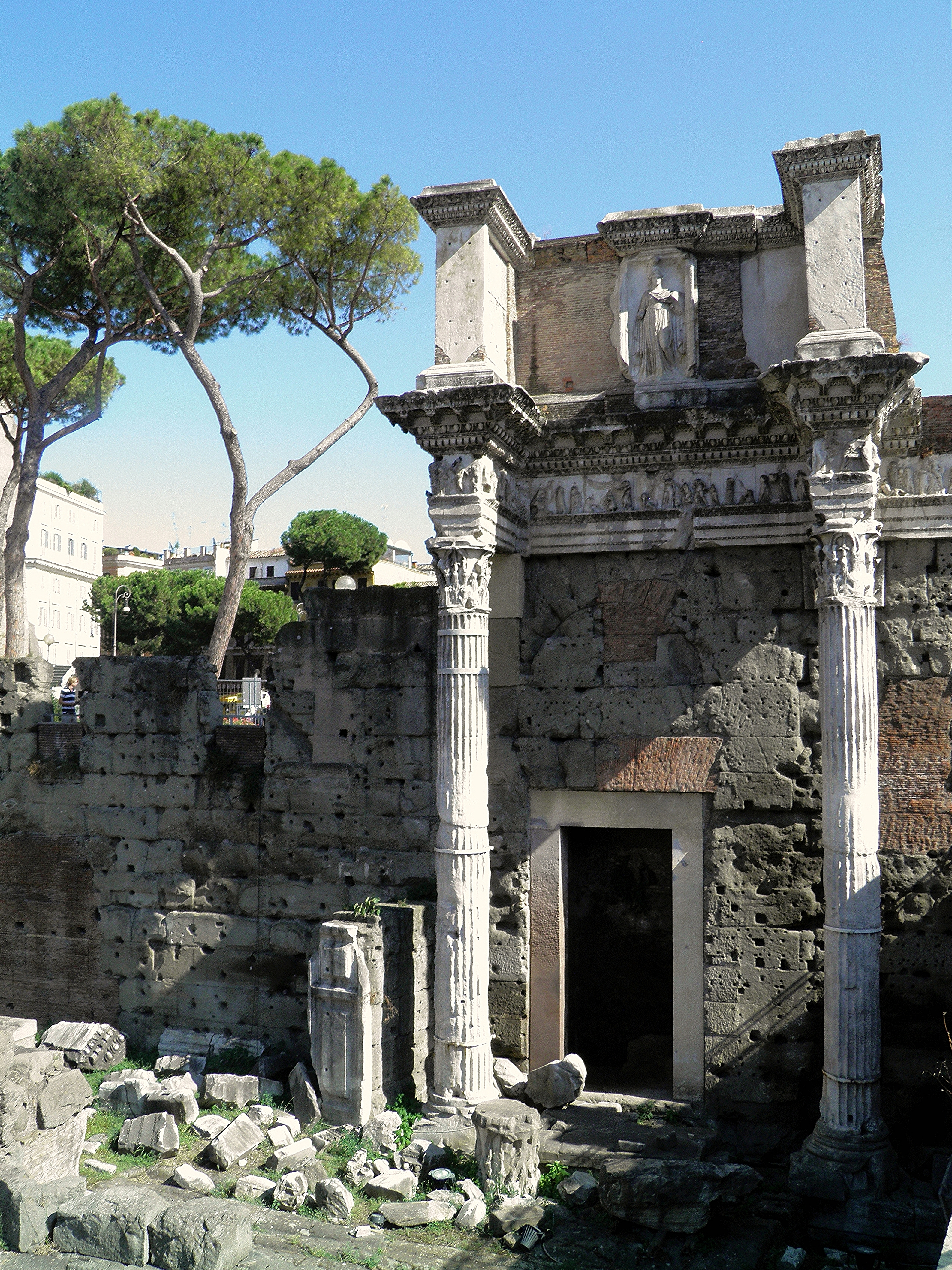 Domitian decided to unify the previous complex and the free remaining irregular area, between the Temple of Peace and the Fora of Caesar and Augustus, and build another monumental forum which connected all of the other fora. The limited space, partially occupied by one of the exedrae of the Forum of Augustus and by the via dell'Argileto, obliged Vespasian to build the lateral porticos as simply decorations of the bounding walls of the forum. The temple, dedicated to Minerva as protector of the emperor, was built leaning on the exedra of the Forum of Augustus, so that the remaining space became a large monumental entrance (Porticus Absidatus) for all the fora. Because of the death of Domitian, the forum was inaugurated by his successor, Nerva, who gave his own name to it. The Forum of Nerva is also known as Transitional Forum, because it worked as an access way, just like via dell'Argileto had done.